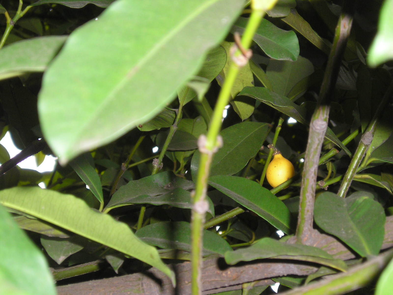 Tree of bakupari - fruit and leaves